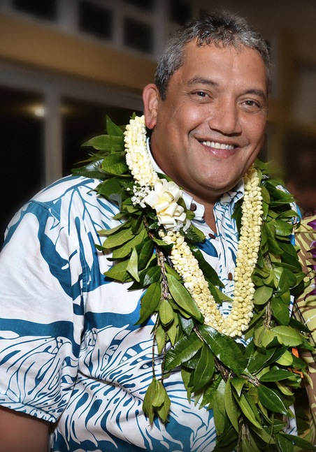 Hawaii County Mayor Billy Kenoi, 2011.